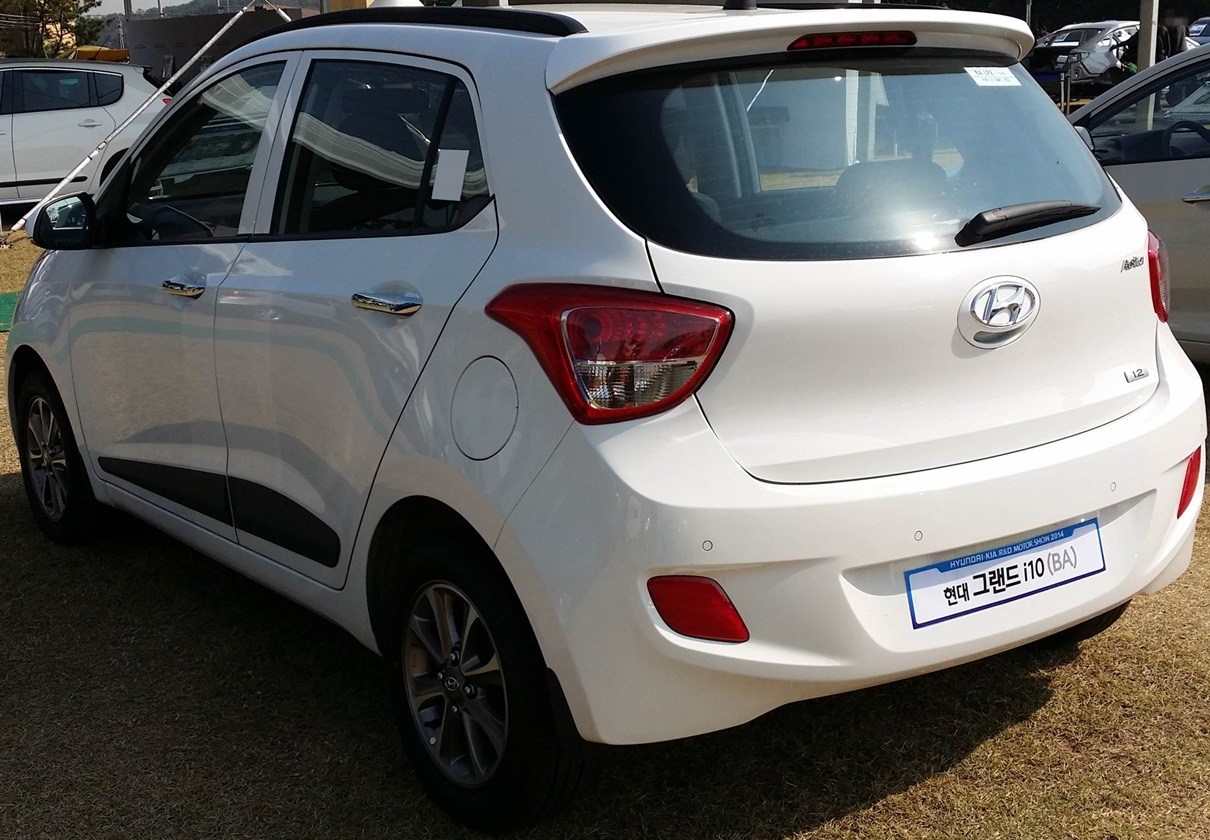 Hyundai Grand i10